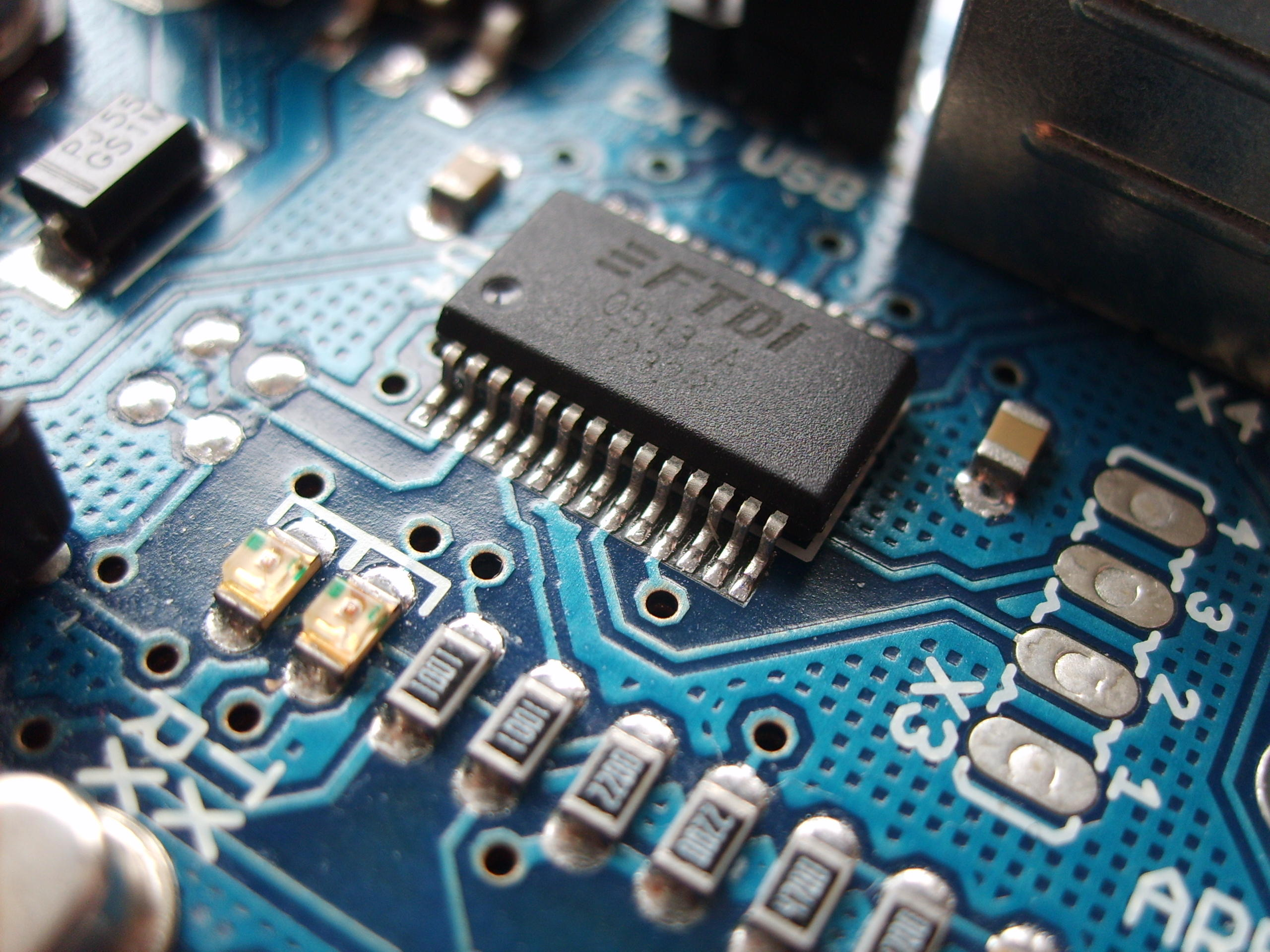 A SMD (surface-mount device) FTDI chip, on the Arduino NG board from arduino.cc. Close-up shot.